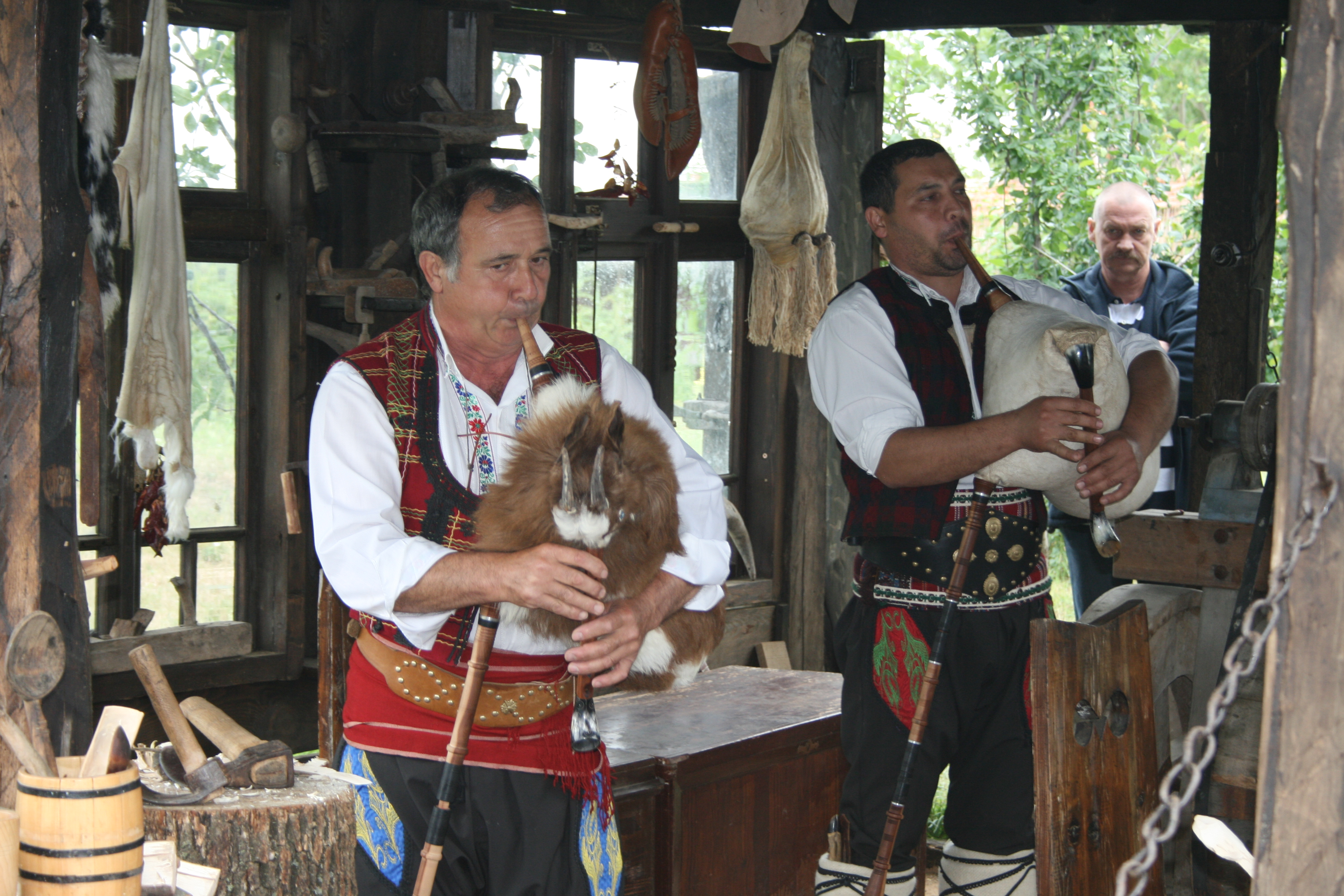 Eastern Bulgarian musicians with their hand-made Bulgarian bagpipes (Gajda).